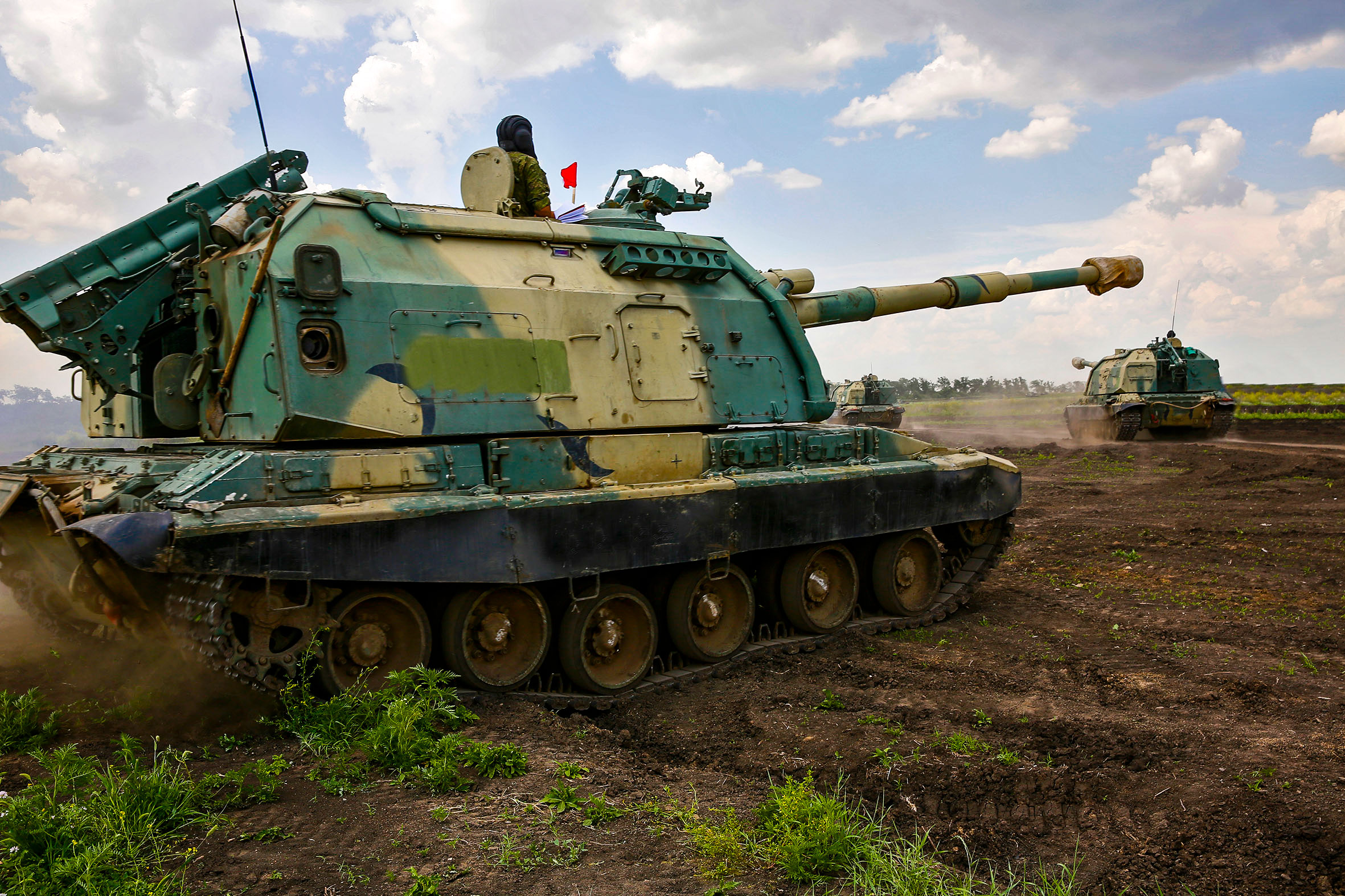 2S19M1 Msta-S.